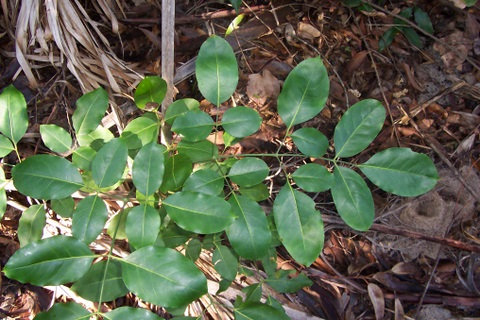 Polyscias elegans at Wyrrabalong_National_Park